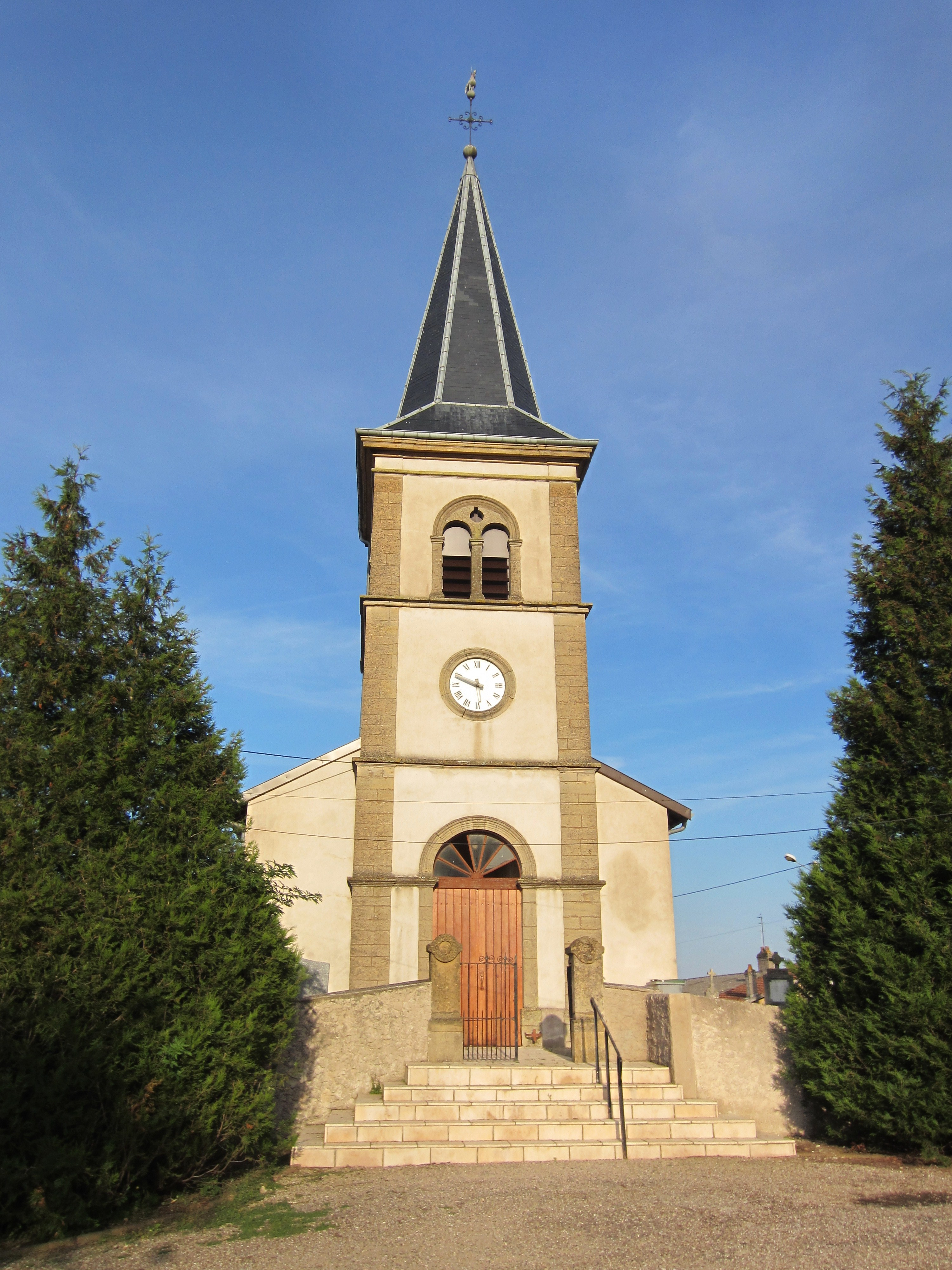 Description eglise Dompierre Allamont Date25 September 2011Sourcemon appareil photoAuthorAimelaimePermission (Reusing this file) eglise Dompierre Allamont